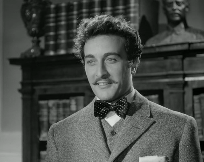 Still frame from the Italian movie La presidentessa (1952) personally captured